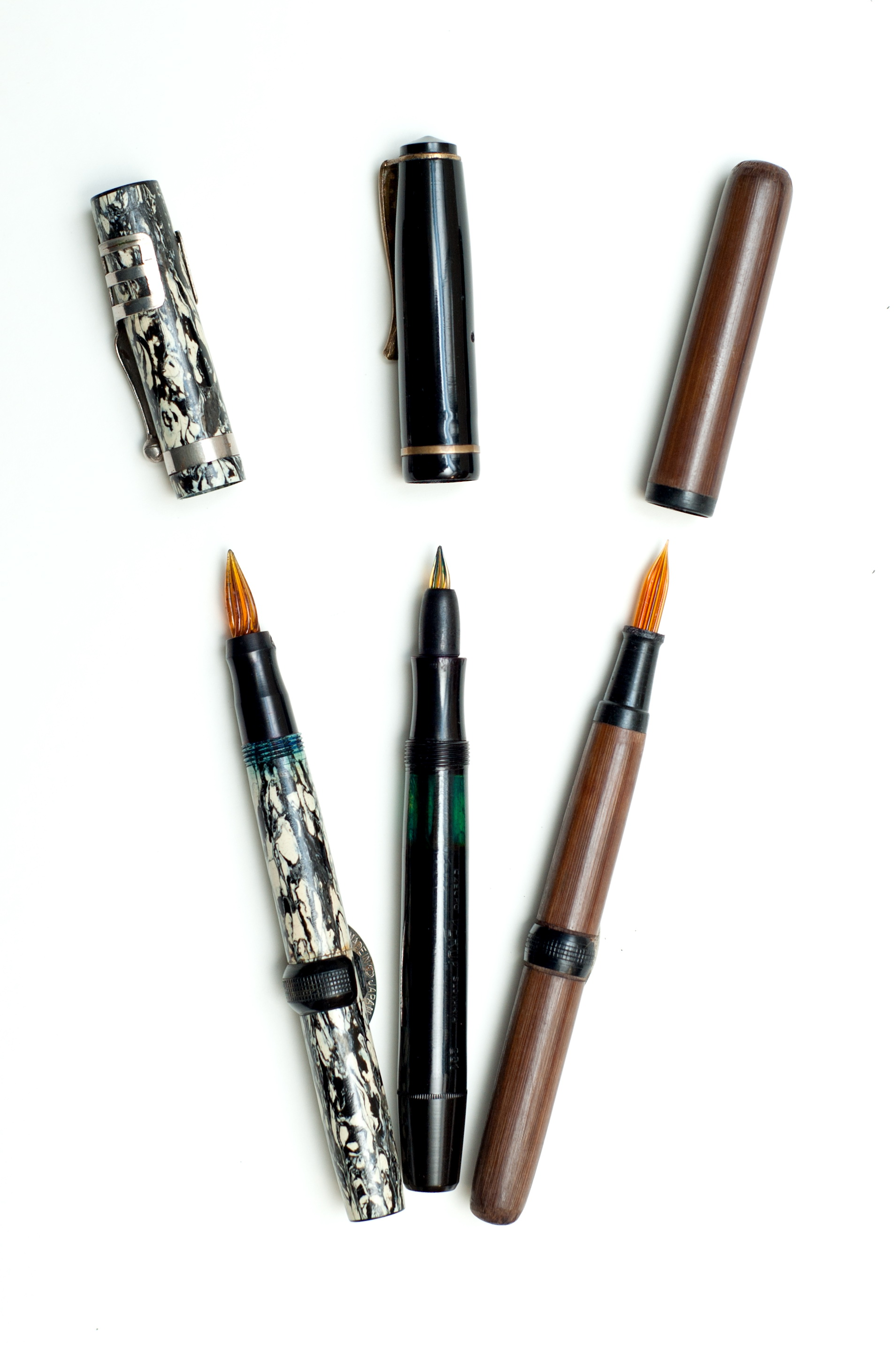 Glass Nib fountainpens